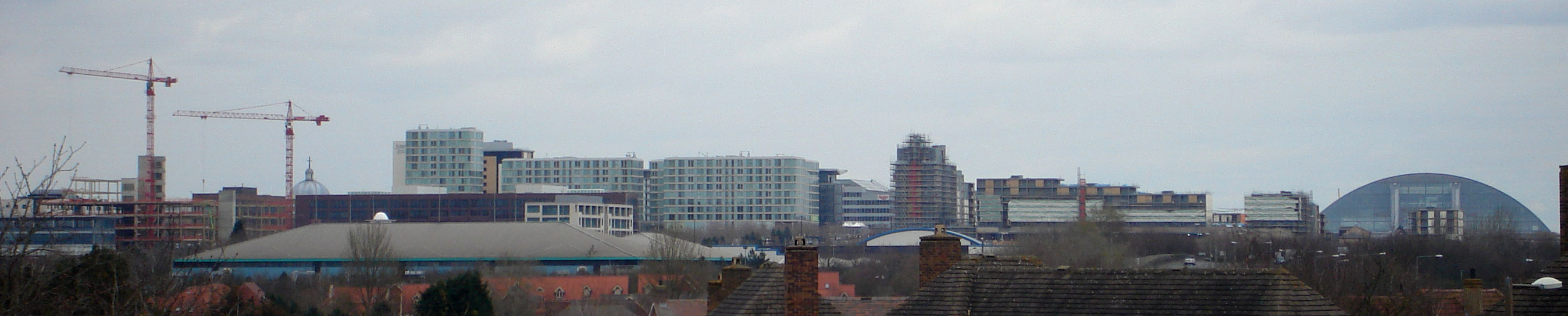 CMKSKYLINE